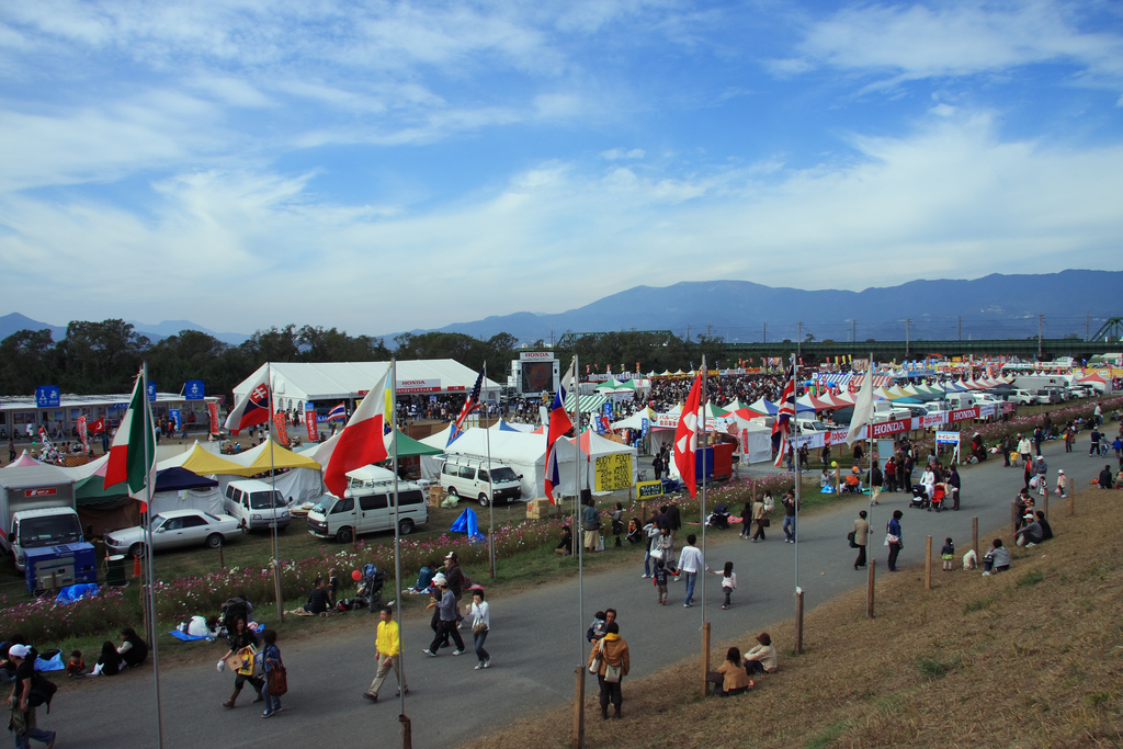 Scene of Saga International Balloon Fiesta.